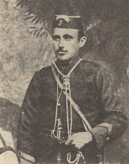 IMARO chetnik and bulgarian revolutionary Georgi flagholder of krushevo cheta